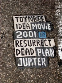 Toynbee Tile, 13th & Chestnut Sts., Philadelphia, PA, USA